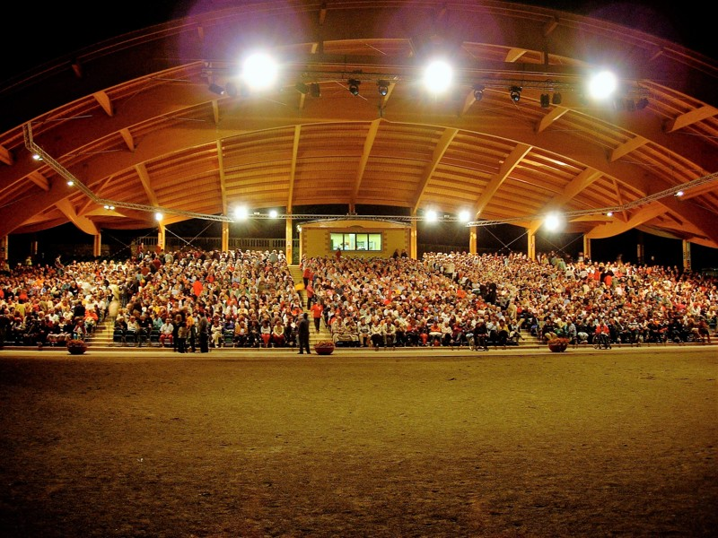 Theatre of Sordevolo